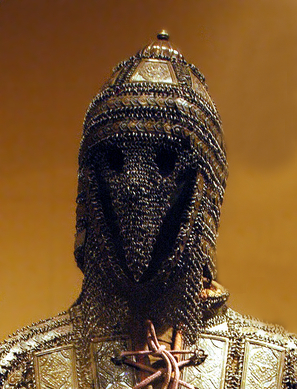 Antique suit of plated mail, Met museum.